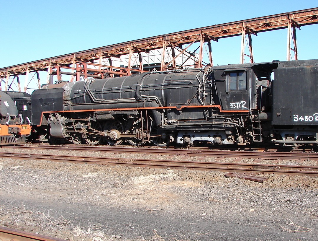 SAR Class 25 3511 (4-8-4) engine Builder's Number: NBL 27371 Type: Condensing Location: Beaconsfield, Kimberley, Northern Cape